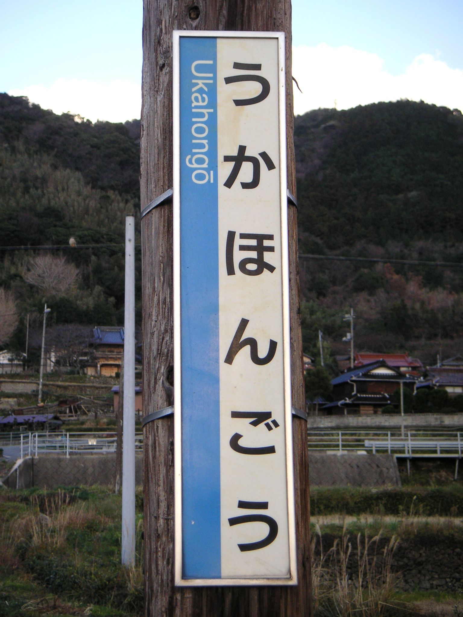 Ukahongō Station.